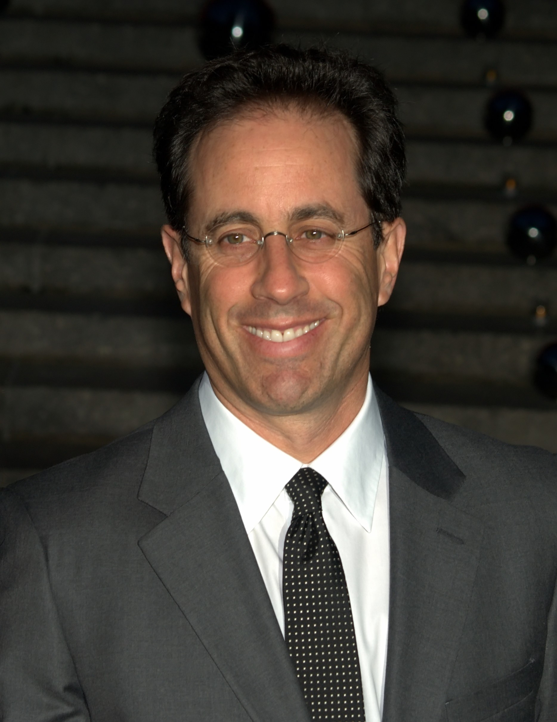 Jerry Seinfeld at the 2010 Tribeca Film Festival.